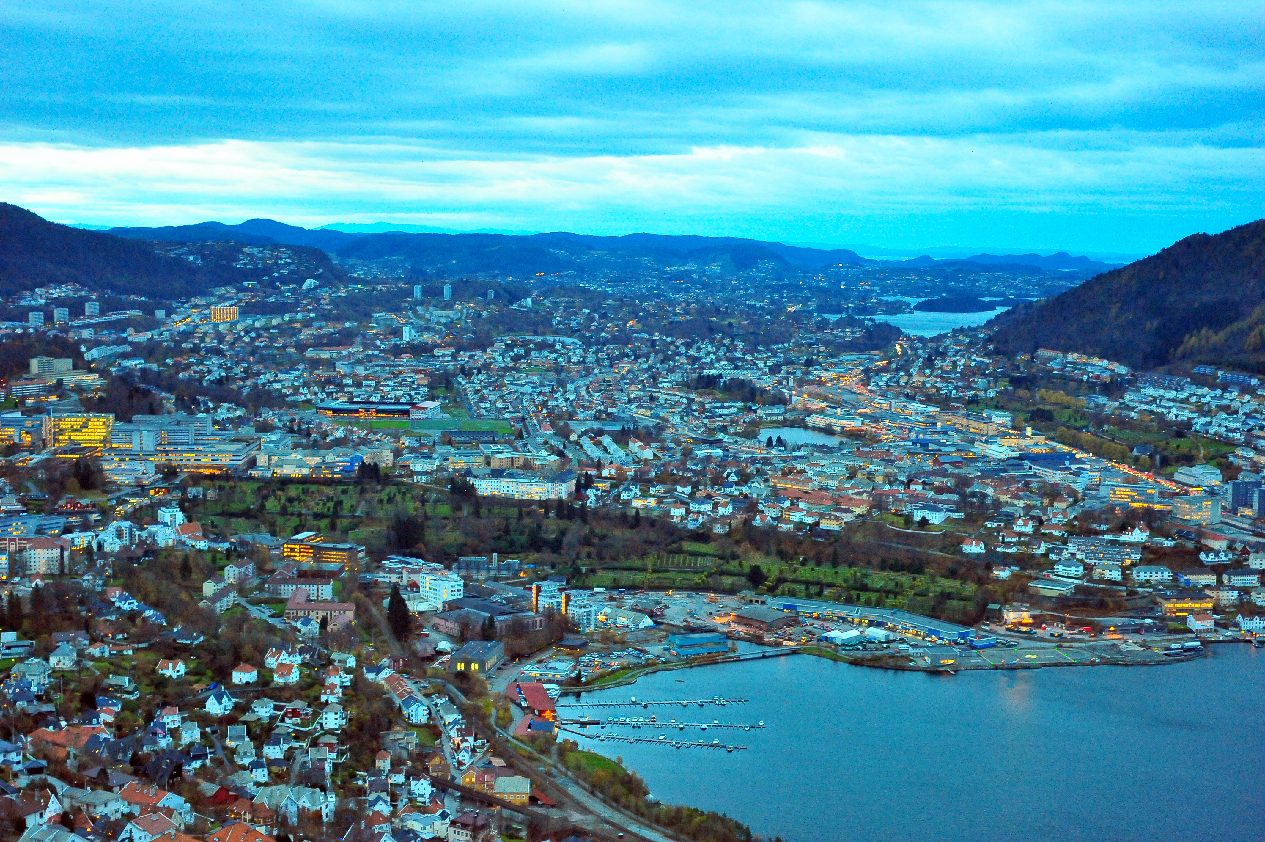 View from mount Fløyen to Bergensdalen, looking south towards Fjøsanger, Landås, Nordåsvatnet.